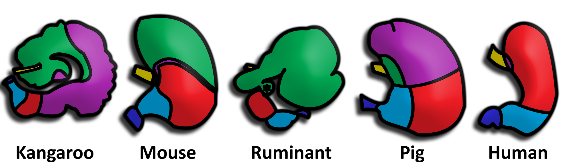 Comparison of stomach glandular regions from several mammalian species. Yellow: esophagus; green: aglandular epithelium; purple: cardiac glands; red: gastric glands; blue: pyloric glands; dark blue: duodenum. Frequency of glands may vary more smoothly between regions than is diagrammed here. Asterisk (ruminant) represents the omasum, which is absent in Tylopoda (Tylopoda also has some cardiac glands opening onto ventral reticulum and rumen). Many other variations exist among the mammals.